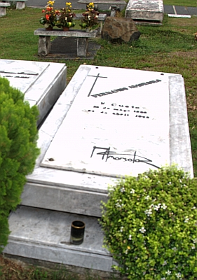 Grave of Filipino painter and National Artist Fernando Amorsolo in Marikina City